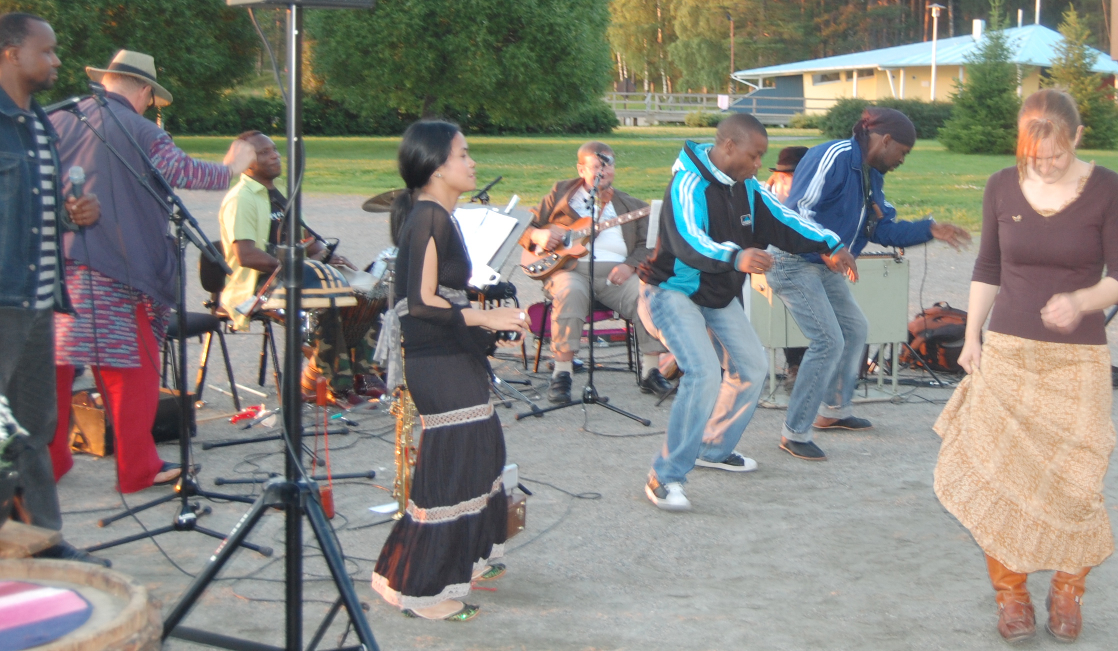 Jam Session in Sommelo Folk Music Festival 2007, Kuhmo, Finland